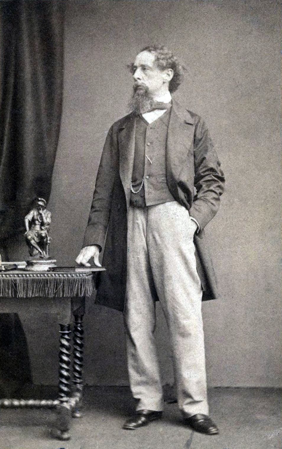 Charles Dickens